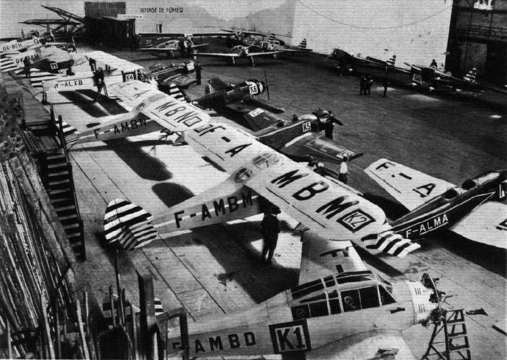 The aircraft before the Challenge 1932 contest. From the nearest: K1 F-AMBD - Guerchais T.9, pilot Henri Massot (French team) K7 F-ALMA - Farman F.350, pilot George Lebeau K2 F-AMBM - Potez 43, pilot Georges Détré K5 F-ALLY - Farman F.234, pilot Maurice Arnoux K3 F-AMBN - Potez 43, pilot Pierre Duroyon K6 F-A??? - Mauboussin M.12, pilot André Nicolle K4 F-ALXB - Caudron C.278, pilot Raymond Delmotte K8 F-ALXV - Farman F.234, pilot Jacques Puget T1 OK-WAL - Breda Ba-15S, pilot Jan Anderle (Czechoslovak team) T2 OK-BAH - Praga BH-111, pilot Josef Kalla T4 OK-BEH - Praga BH-111, pilot František Klepš in a middle background - Polish team, with PZL.19 and RWD 6 aircraft on the right background - Italian team, with Breda Ba.33 aircraft (first to the right - pilot Miss Winifred Spooner)